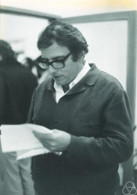 Joram Lindenstrauss, Israeli mathematician, in Jerusalem.